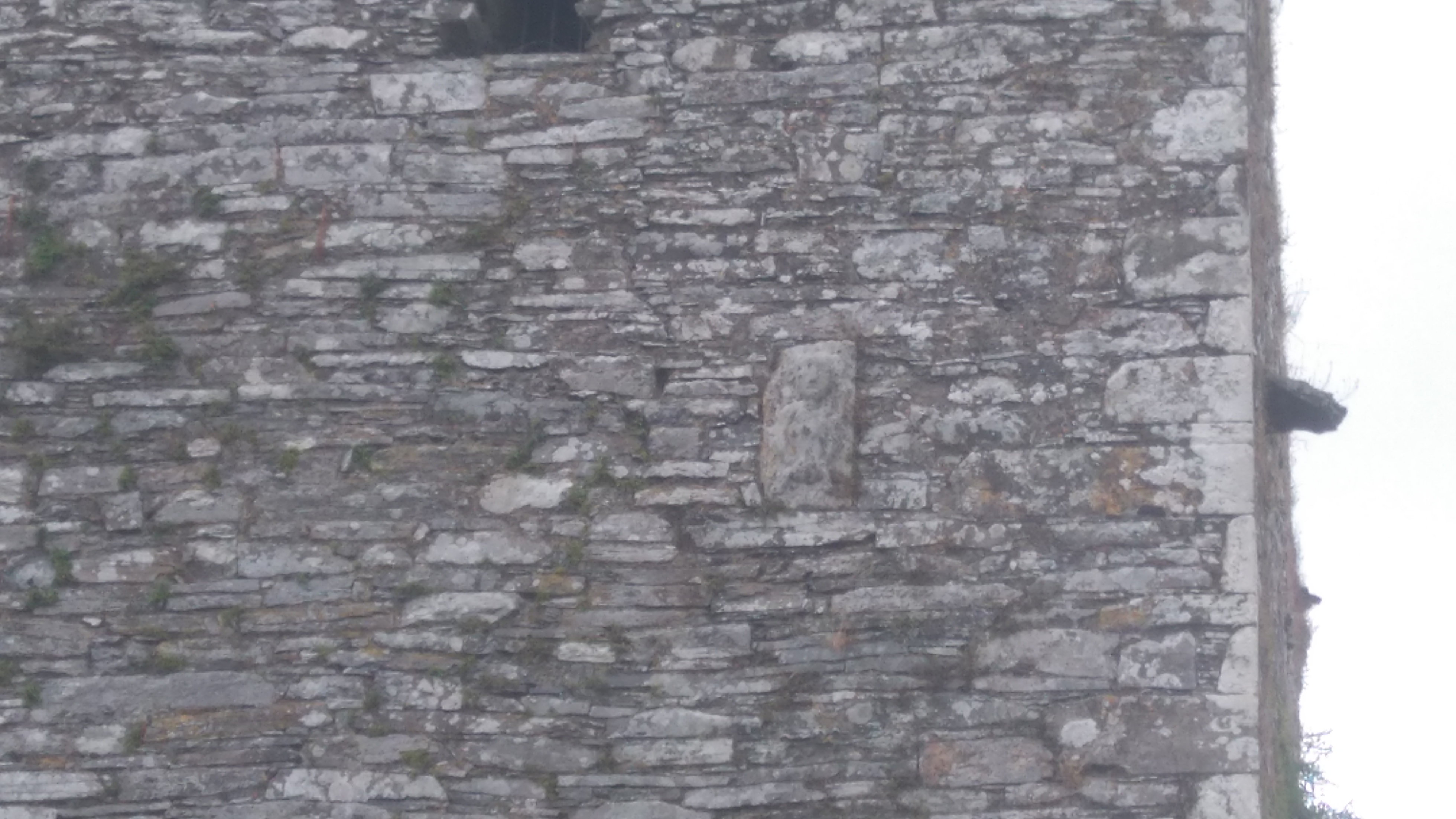 Sheela Na Gig photographed on Ballinacarriga Castle, Dunmanway, Co. Cork Ireland 51°42'20.1"N 9°01'53.9"W, 3 St Patrick's Quay, Ballinacarriga, Bandon, Co. Cork